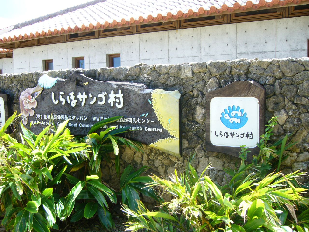 WWF Coral Reef Conservation and Research Centre(Shiraho Sango Mura), located at Shiraho, Ishigaki island, Okinawa prefecture, Japan.